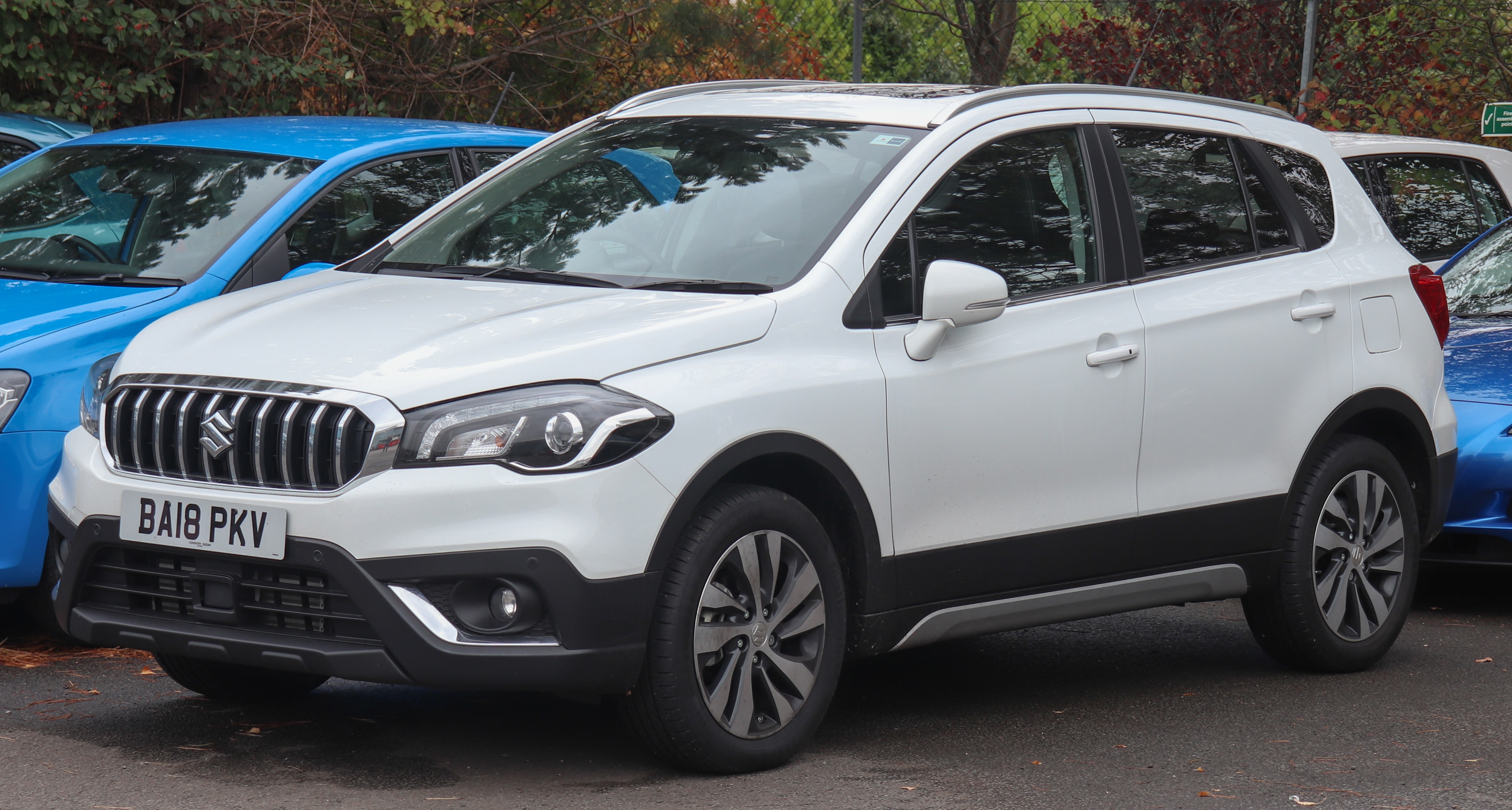 2018 Suzuki SX4 S-Cross SZ5 DDIS Allgrip 1.6 Taken in Leamington Spa